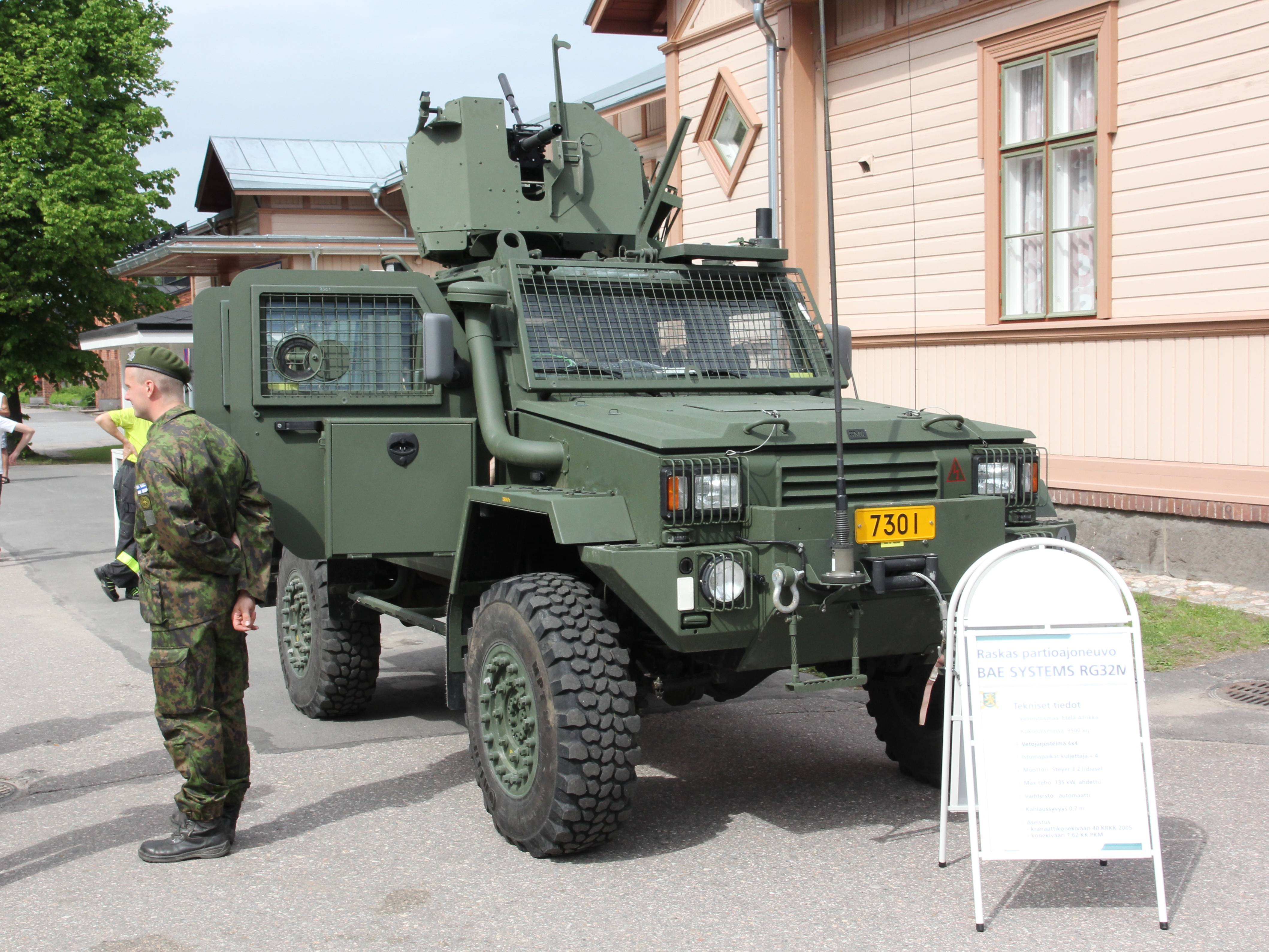 RG-32M heavy patrol car with 40 mm H&K GMG automatic grenade launcher on display during Finnish Defence Forces 2014 Flag day in Lappeenranta Rakuunanmäki.